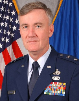 Official USAF photo of Major General Martin - TAG-CT